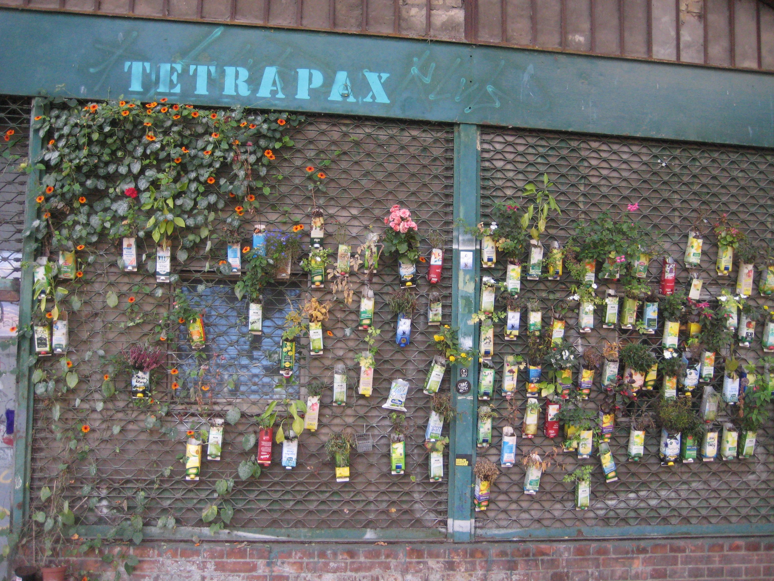 Tetrapak as plant container